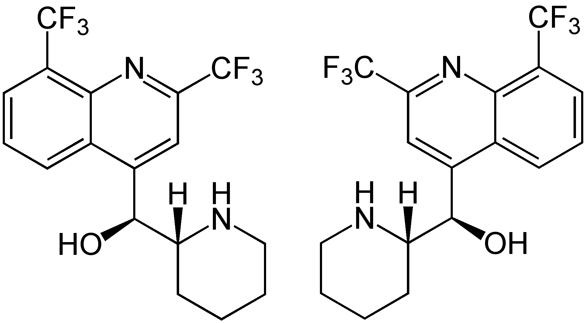 (RS,SR)-(±)-Mefloquine_Structural_Formulae